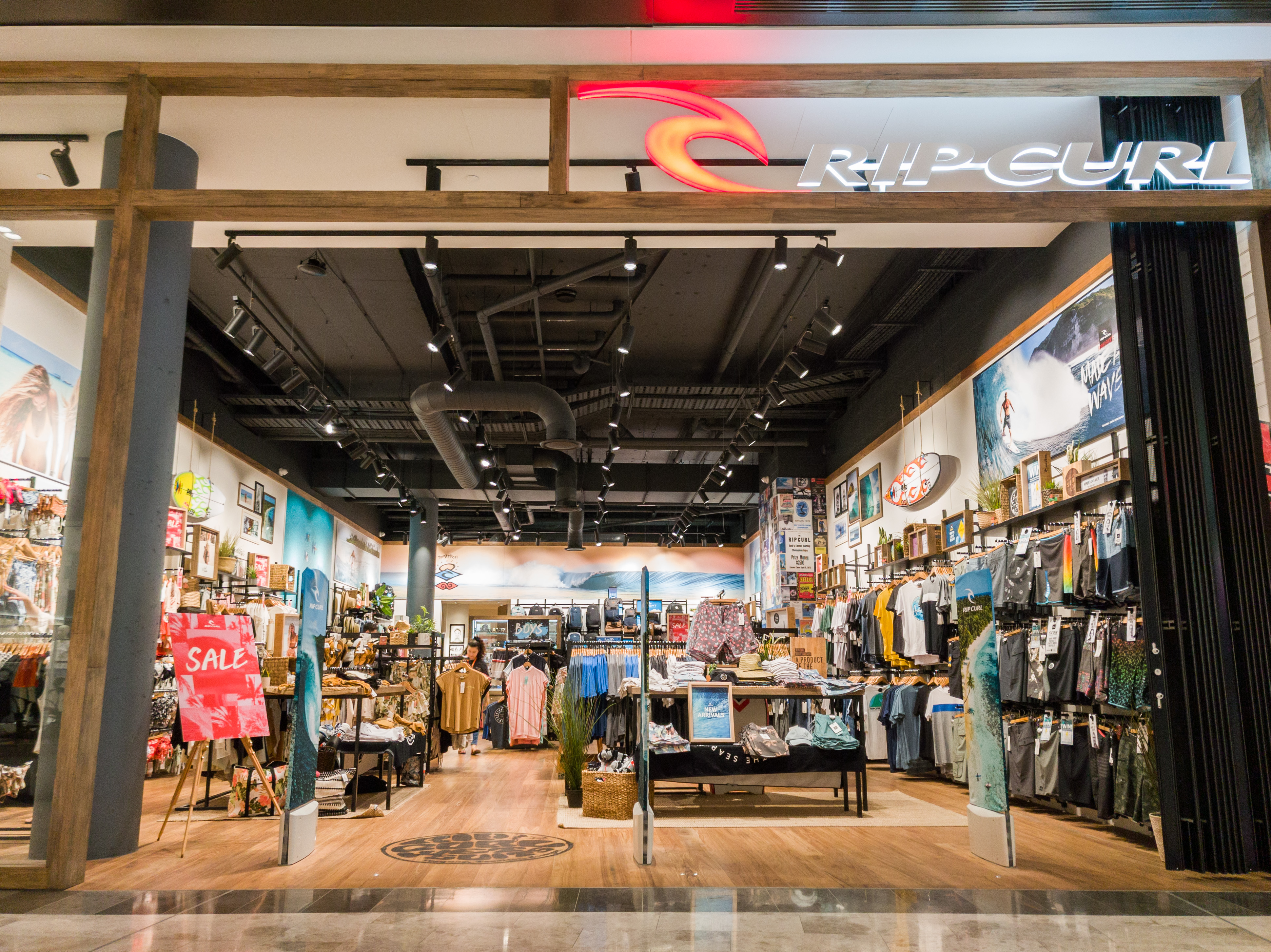 Rip Curl store in Westfield Carousel Shopping Centre